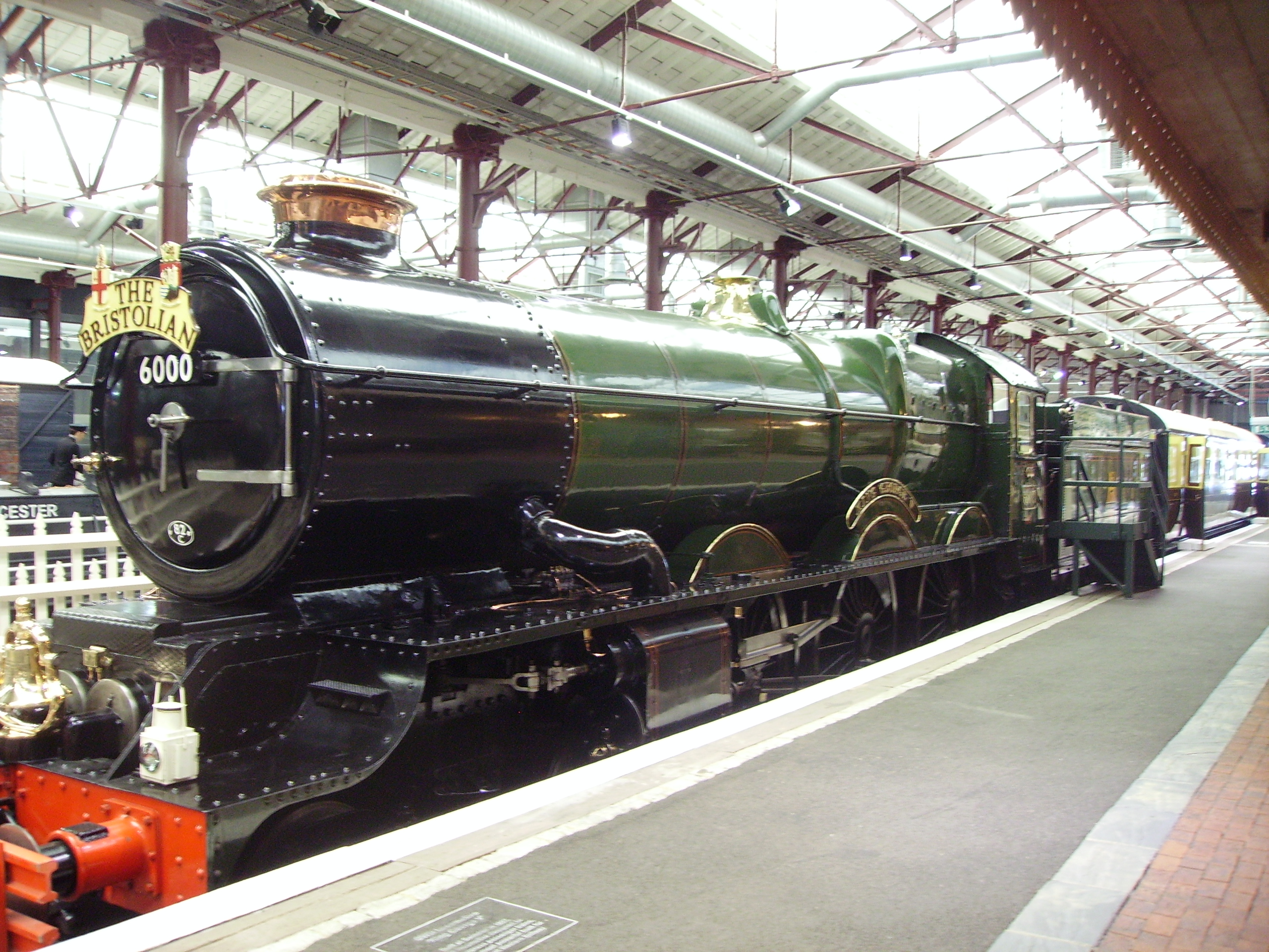 Photographer: User:Ballista Taken in the Steam Museum, Swindon